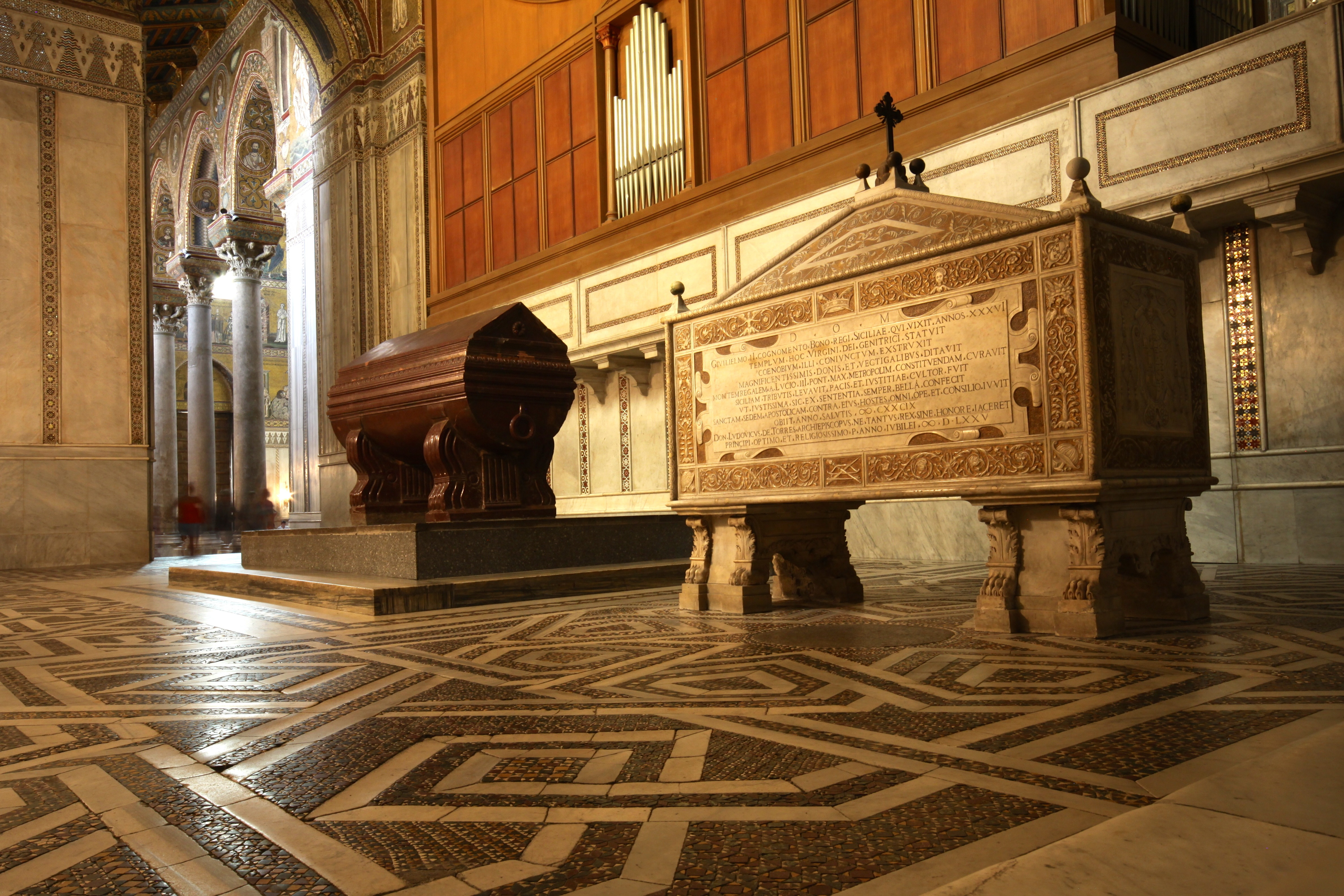 Imperial sarcophagi in the Cathedral of Monreale